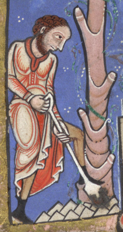 "Digging", detail from the Hunterian Psalter, Glasgow University Library MS Hunter 229 (U.3.2)